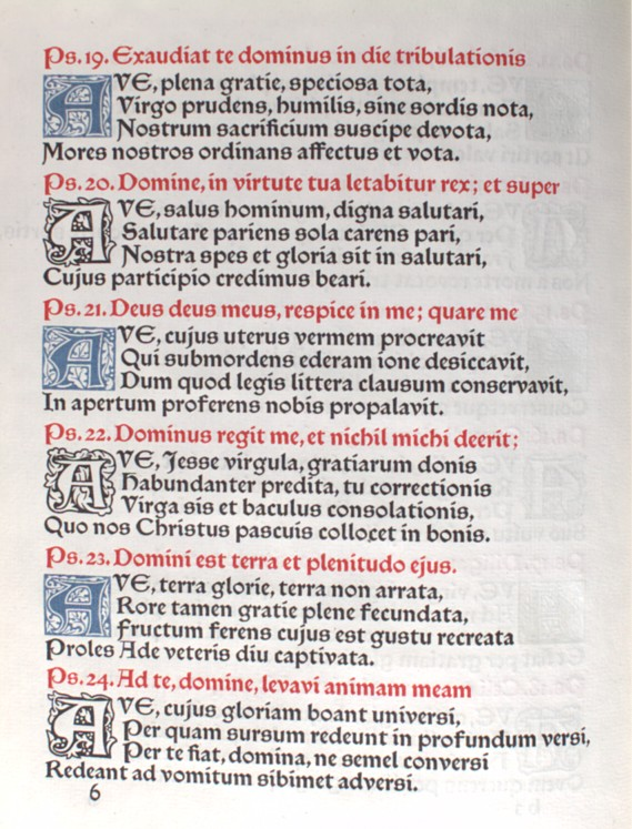 Page from the Kelmscott Press edition of Laudes Beatae Mariae Virginis by Stephen Langton (d. 1228). Hammersmith: Kelmscott Press, 1896. This is one of only two books by the Kelmscott Press printed in 3 colours.